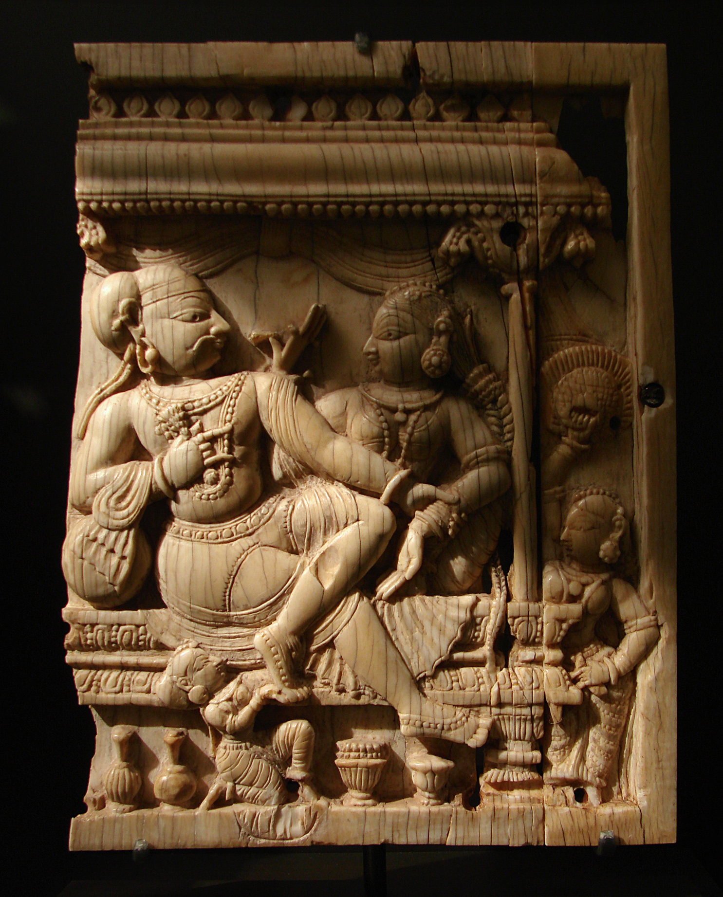 Ivory relief. India, Tamil Nadu, Nayak period, 17th century. Musée Guimet, Paris.